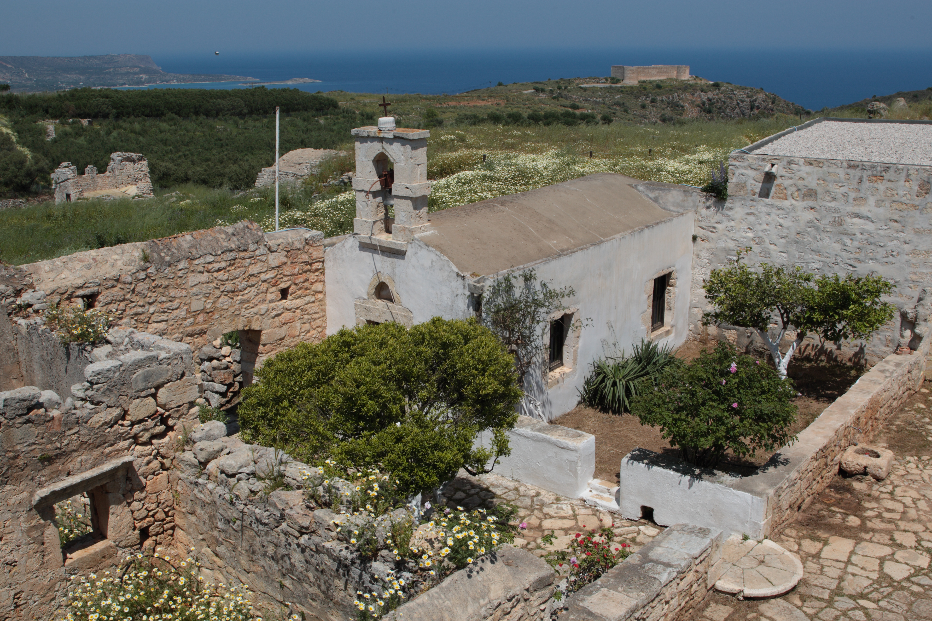 The monastery of Agios Ioannis Theologos, Aptera, Crete